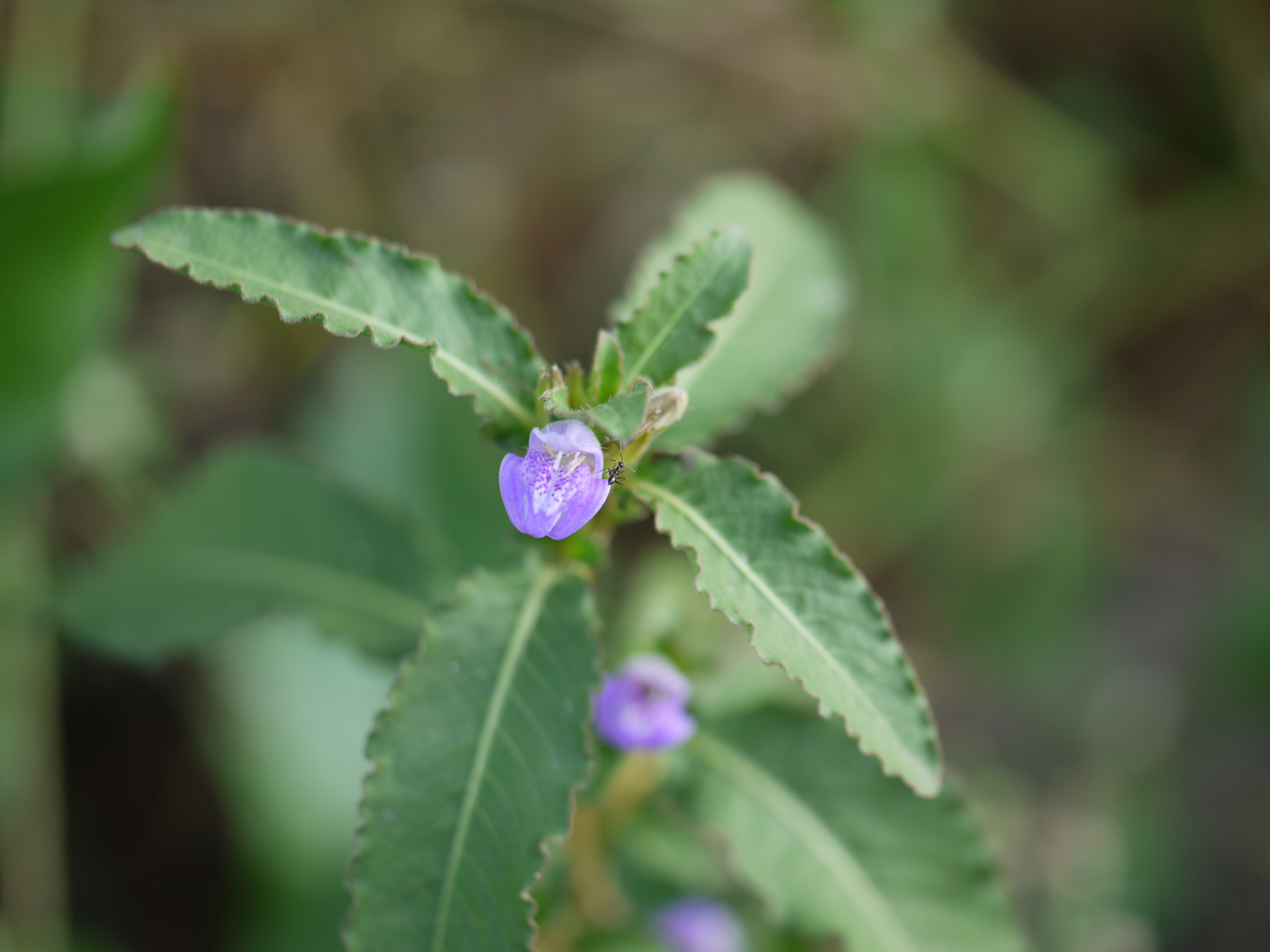 Acanthaceae (acanthus or ruellia family) » Hygrophila ringens hy-GRO-fill-uh -- from Greek hugros (moist), philo (love), refers to affinity for moist soil RIN-jens -- open-mouthed, referring to a hole commonly known as: erect hygrophila • Malayalam: nir-schulli • Sanskrit: itkata • Tamil: நீர்ச்சுள்ளி nir-c-culli • Telugu: చాదు గొబ్బి sadu gobbi Native to: India, Sri Lanka, Indo-China References: Flowers of India • NPGS / GRIN • Globinmed• ENVIS - FRLHT